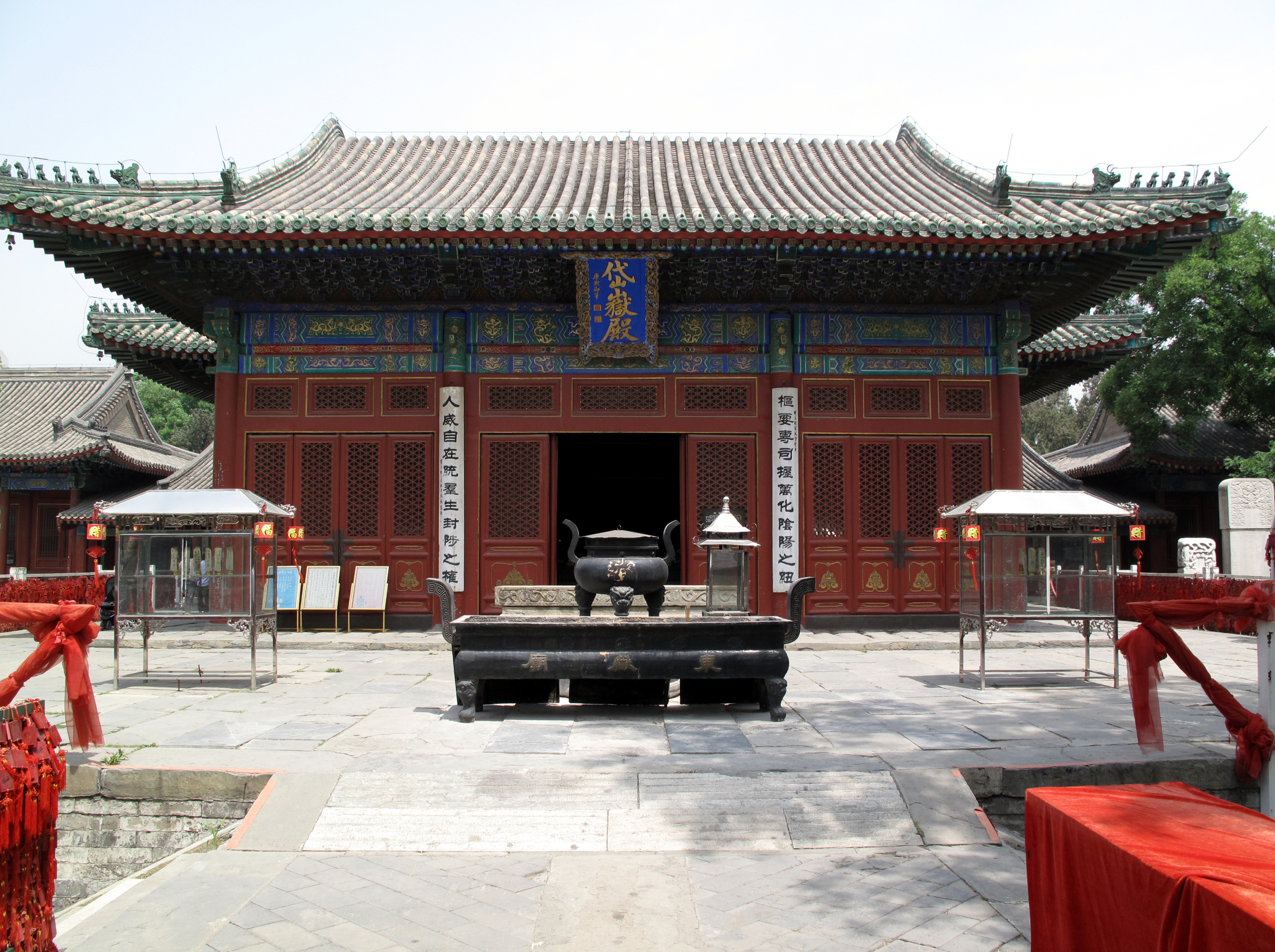 Dai Yue Dian Hall. Dong Yue Miao, Beijing The Great Hall at the top of the temple's axis enshrines Yama, King of the Dead and Lord of Mount Tai.